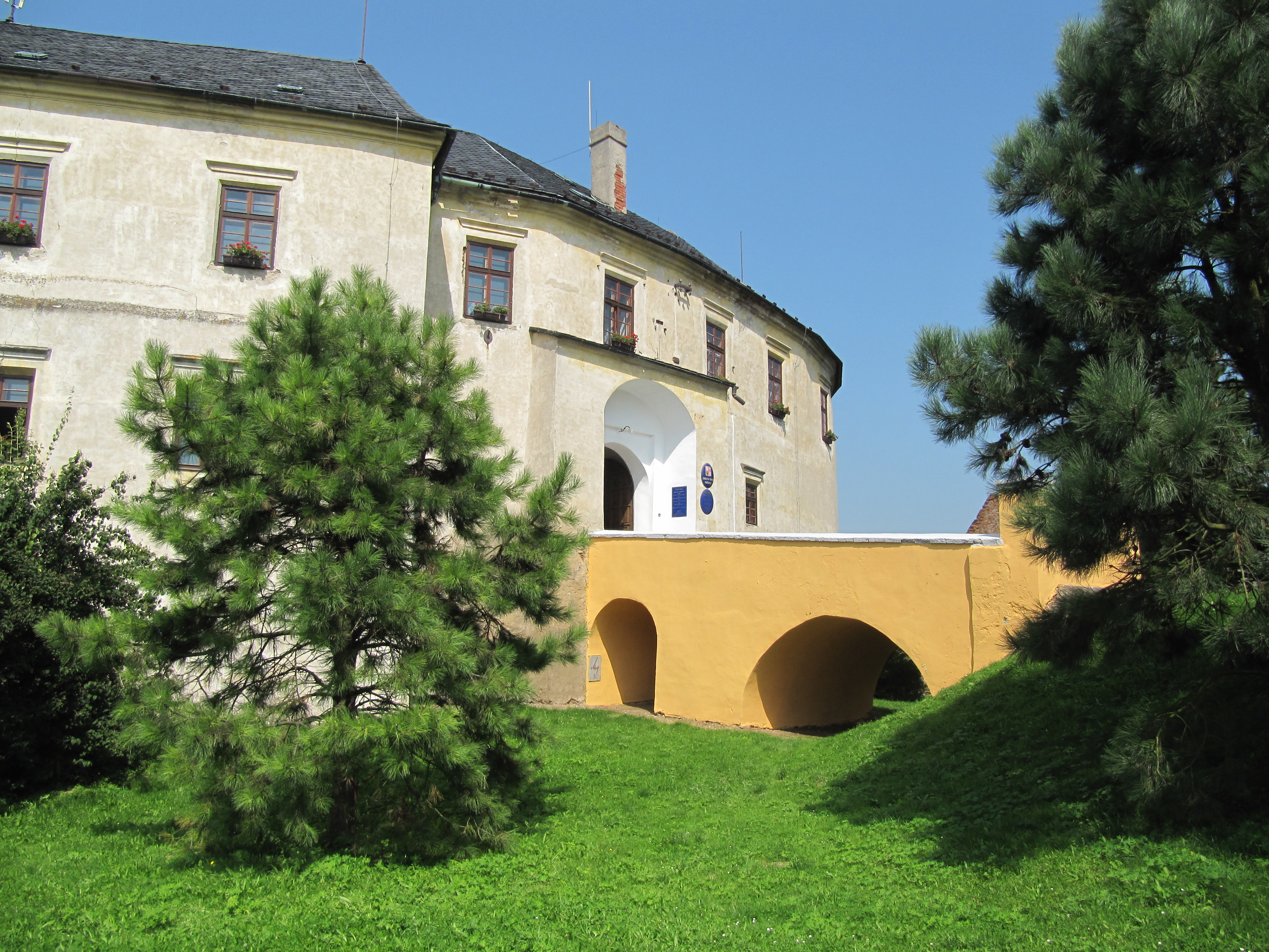 Tršice in Olomouc District, Czech Republic. Castle, bridge.